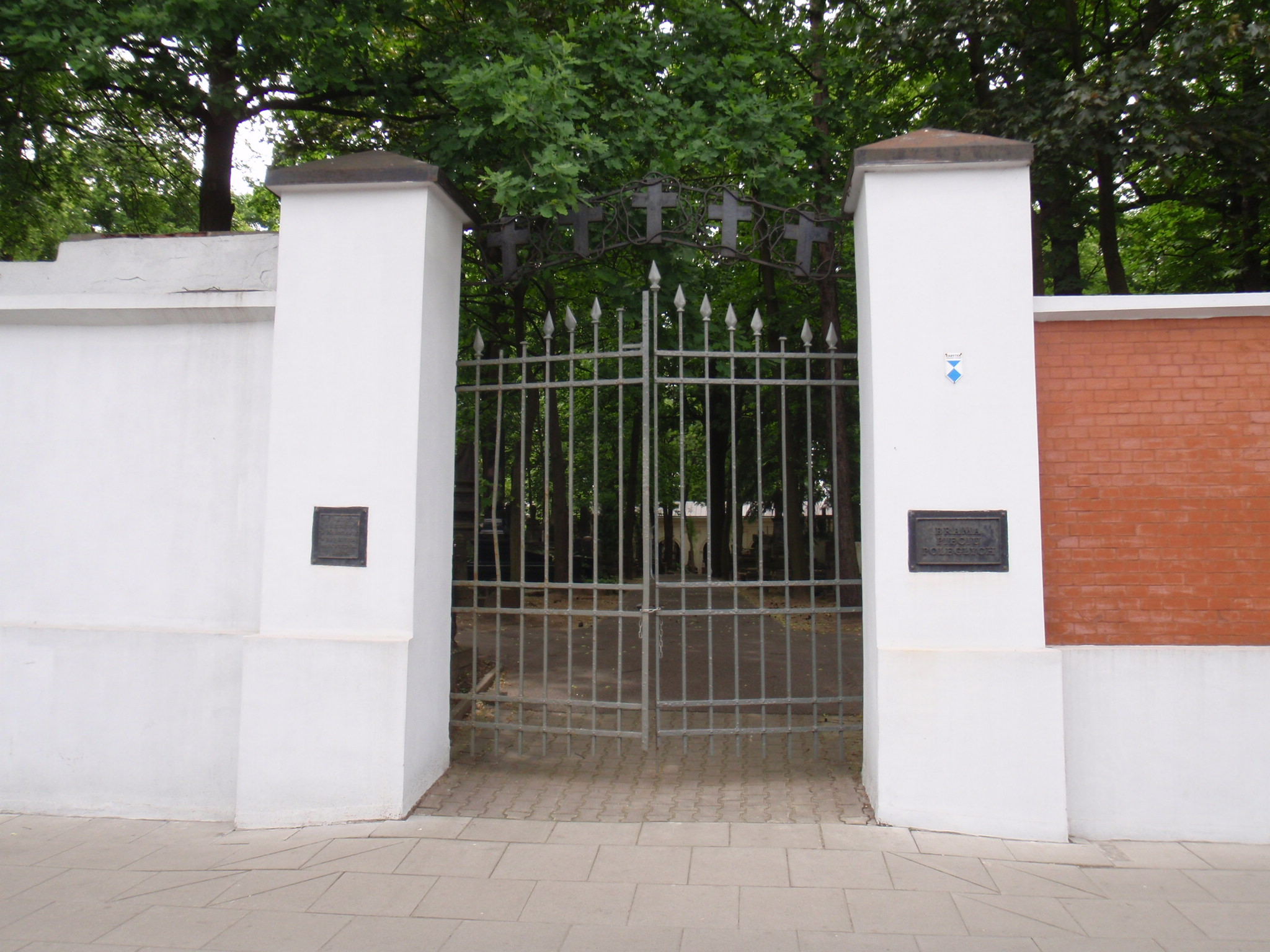 Powązki Cemetery in Warsaw - Gate I called Gate of "Five Killed" - Powązkowska Street